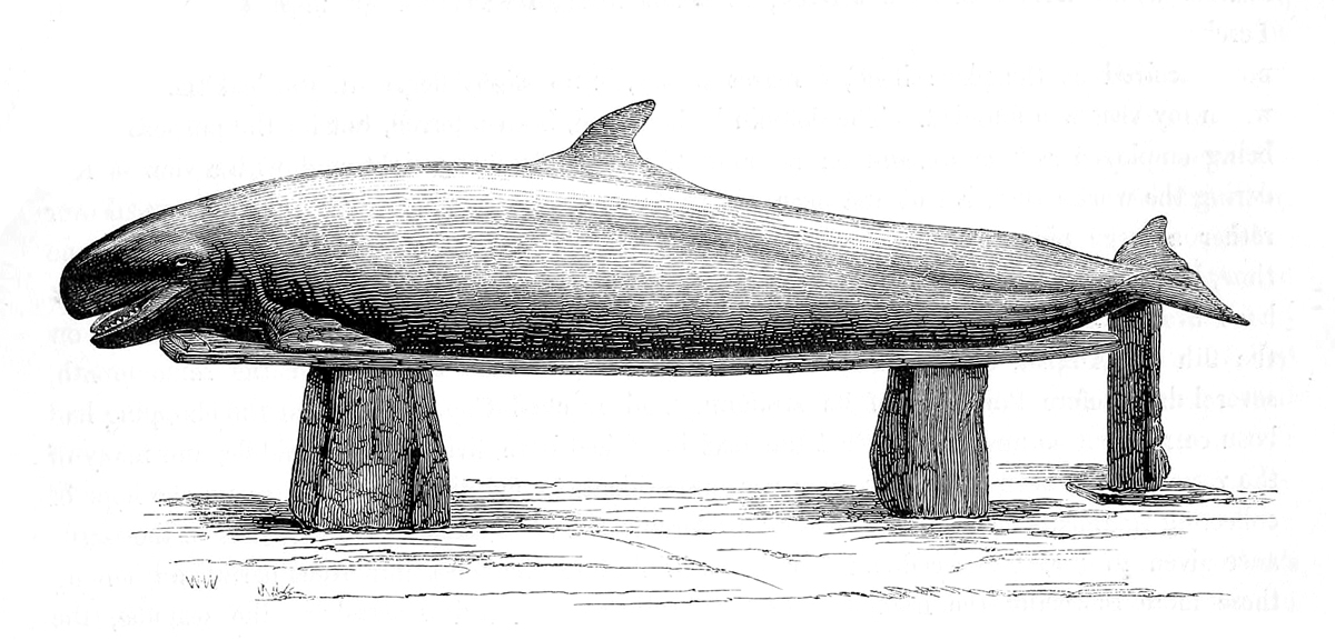 Female Pseudorca crassidens sixteen feet in length ; killed in the Bay of Kiel, November 24 1861